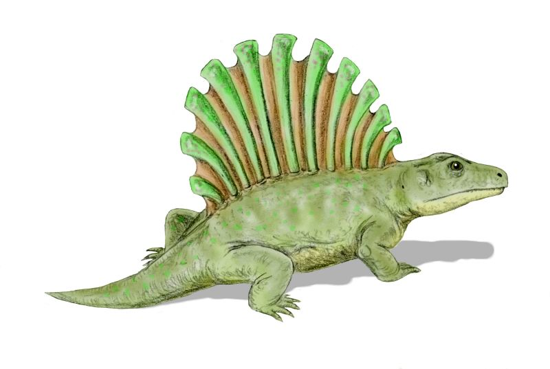 Platyhystrix rugosus, a temnospondyli from the Early Permian of Texas, pencil drawing